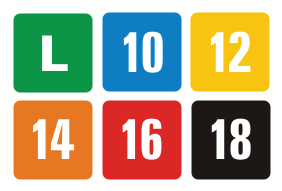 Updated symbols of the Brazilian Rating System.